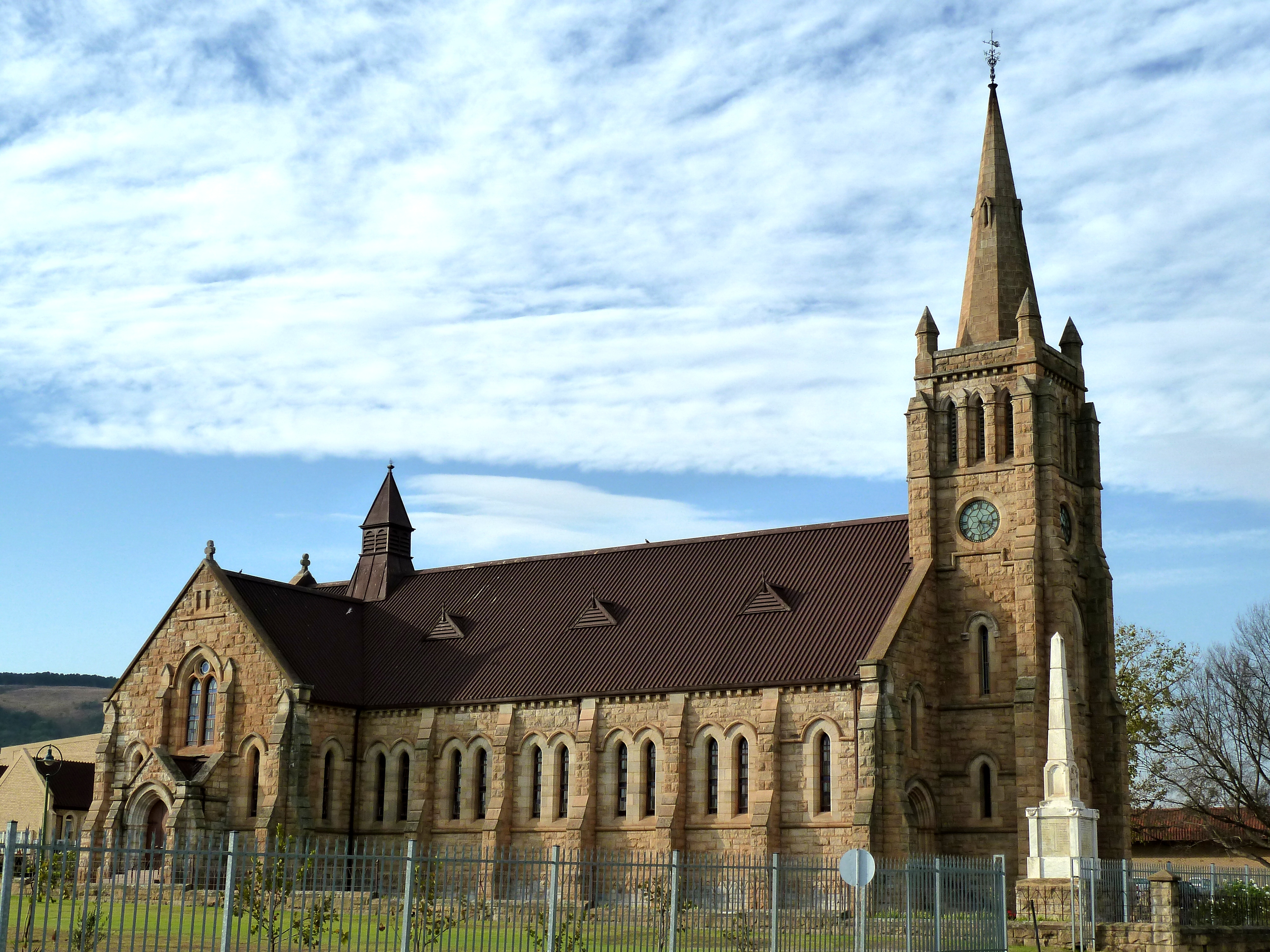 Building of the Dutch Reformed Church, Vryheid, completed in 1894. Foundation stone layed on 25 Sept 1891 by Mr. Lukas J. Meyer, the first church minister was A.J. Louw. Building designed by Wilson & Earl, executed by contractor D. Nicolson. A Boer War memorial is visible in front of the building.